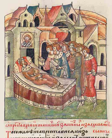 Death of Iziaslav II of Kiev